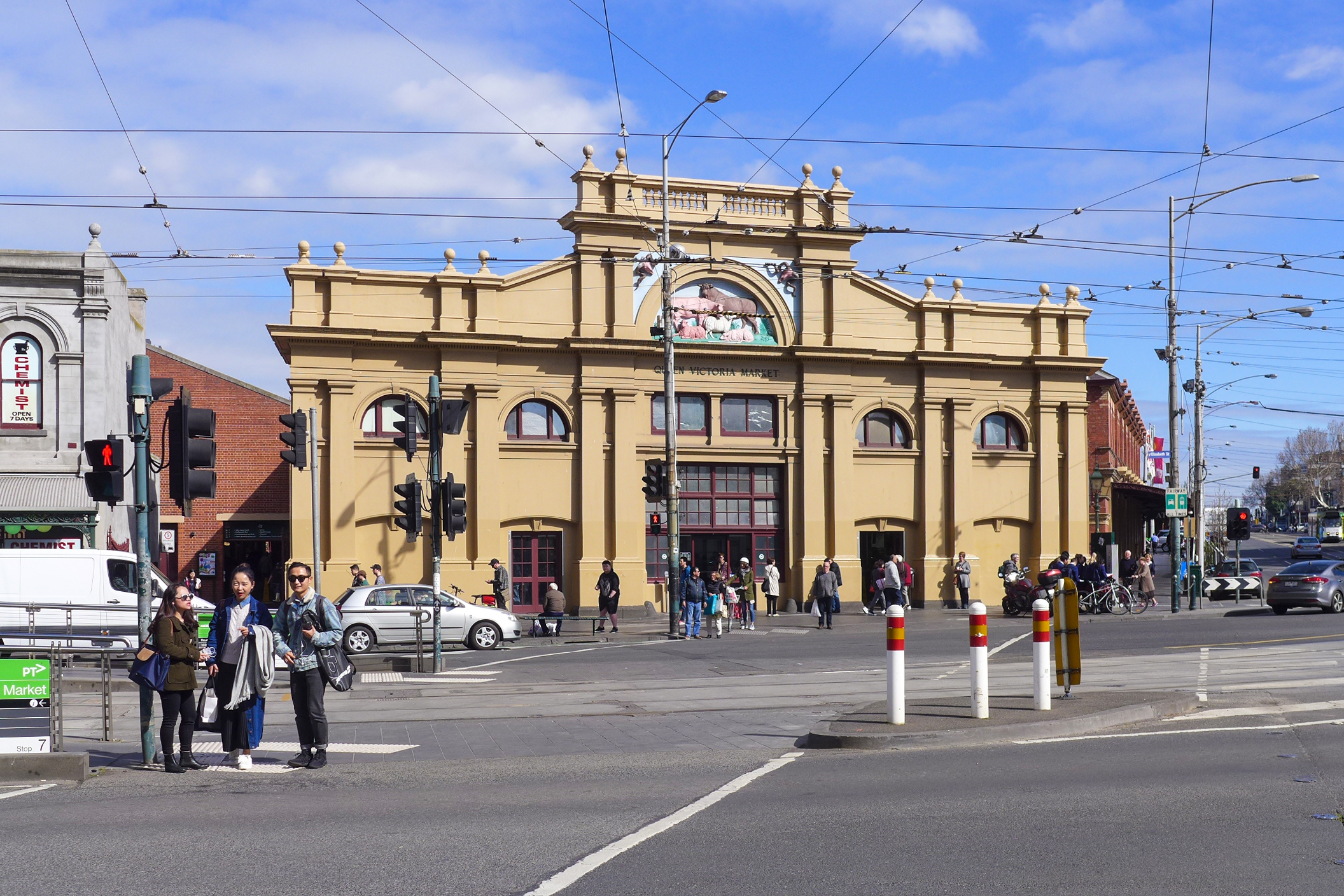 Queen Victoria Market